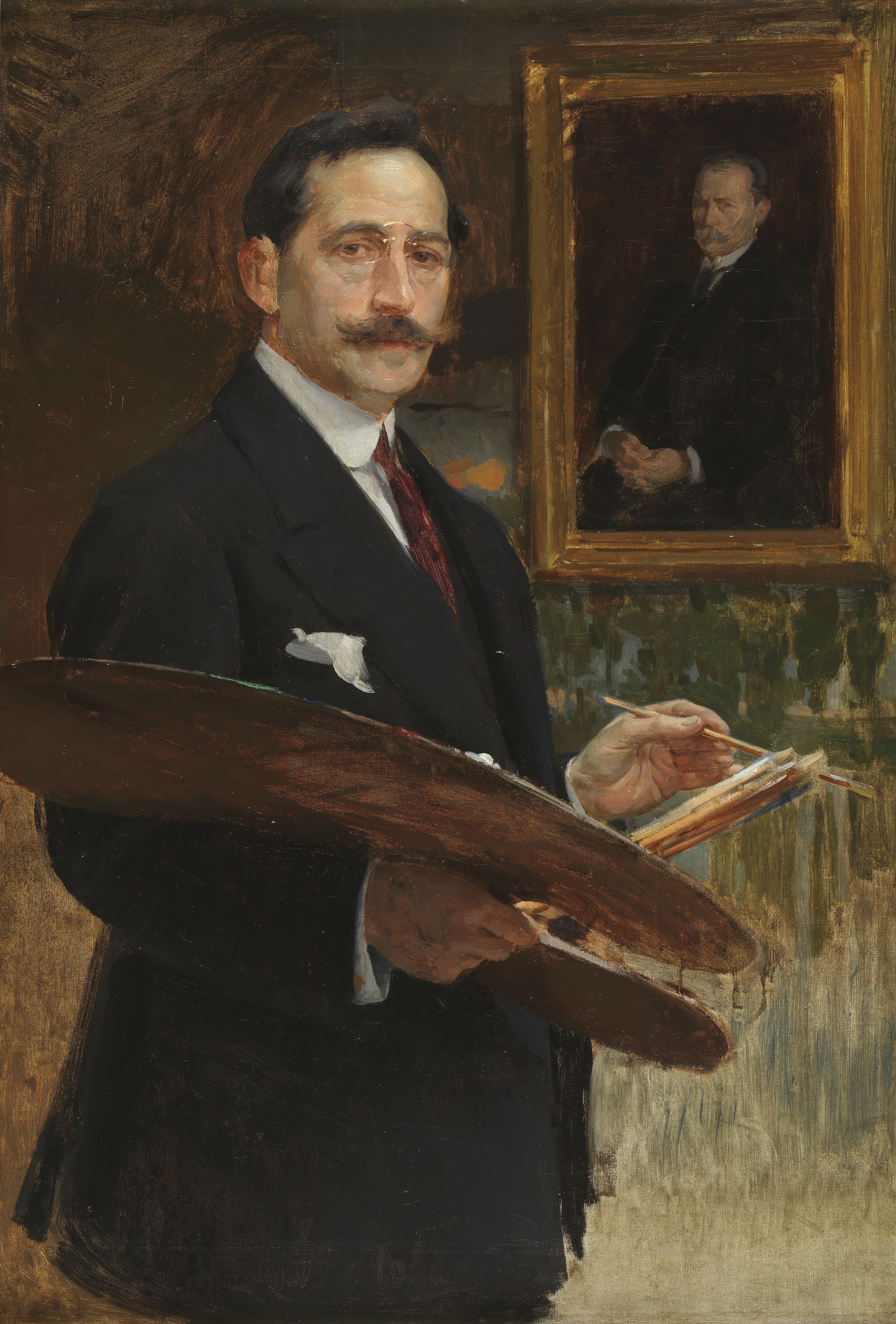 Description at Museo del Prado official site